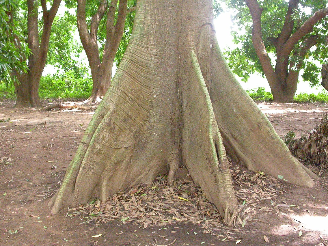 Tabular roots of Ceiba pentandra, Kapok tree. Foto taken near Banfora, Burkina Faso.